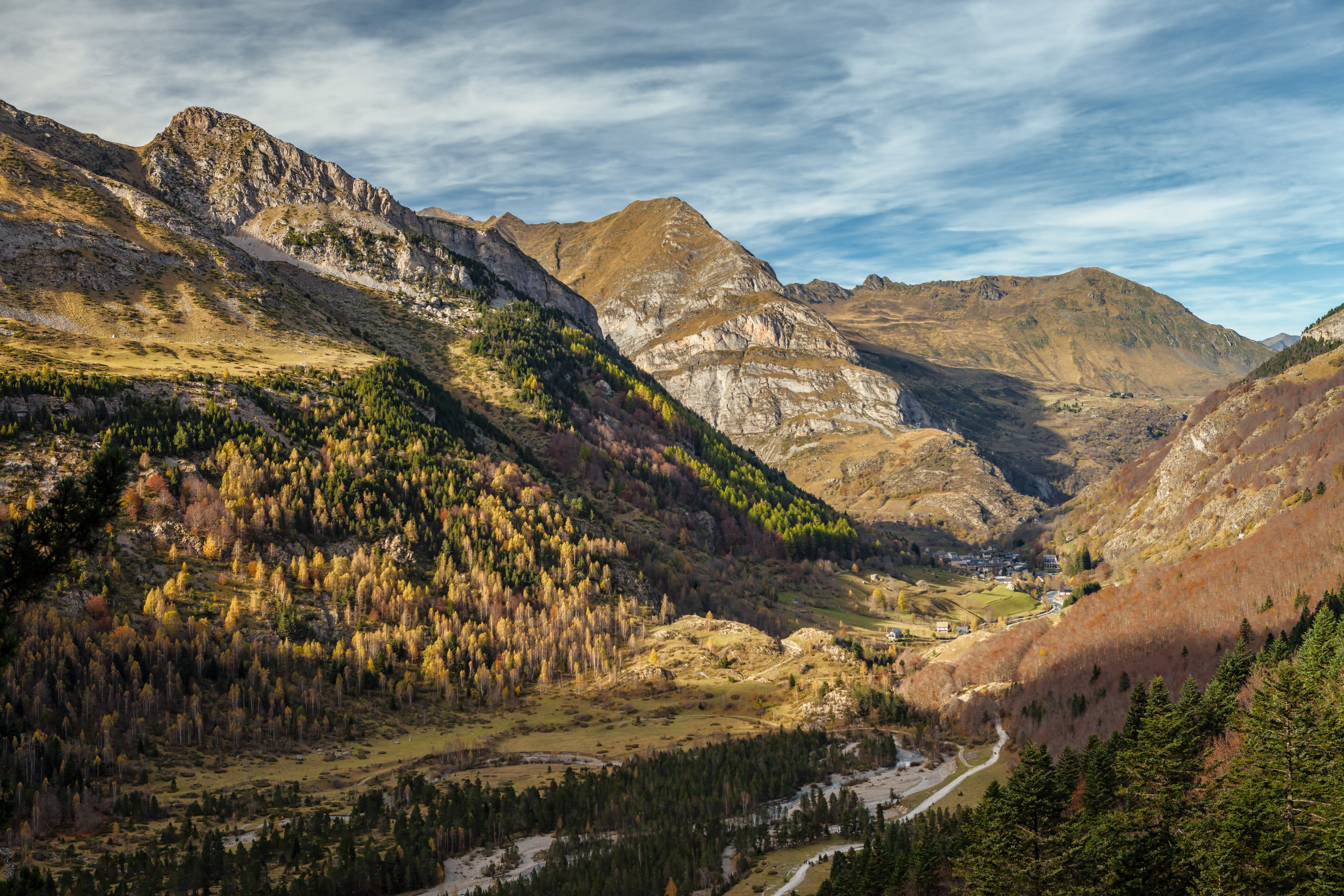 The Pyrénées National Park, view on the Gavarnie valley, Hautes-Pyrénées, France.